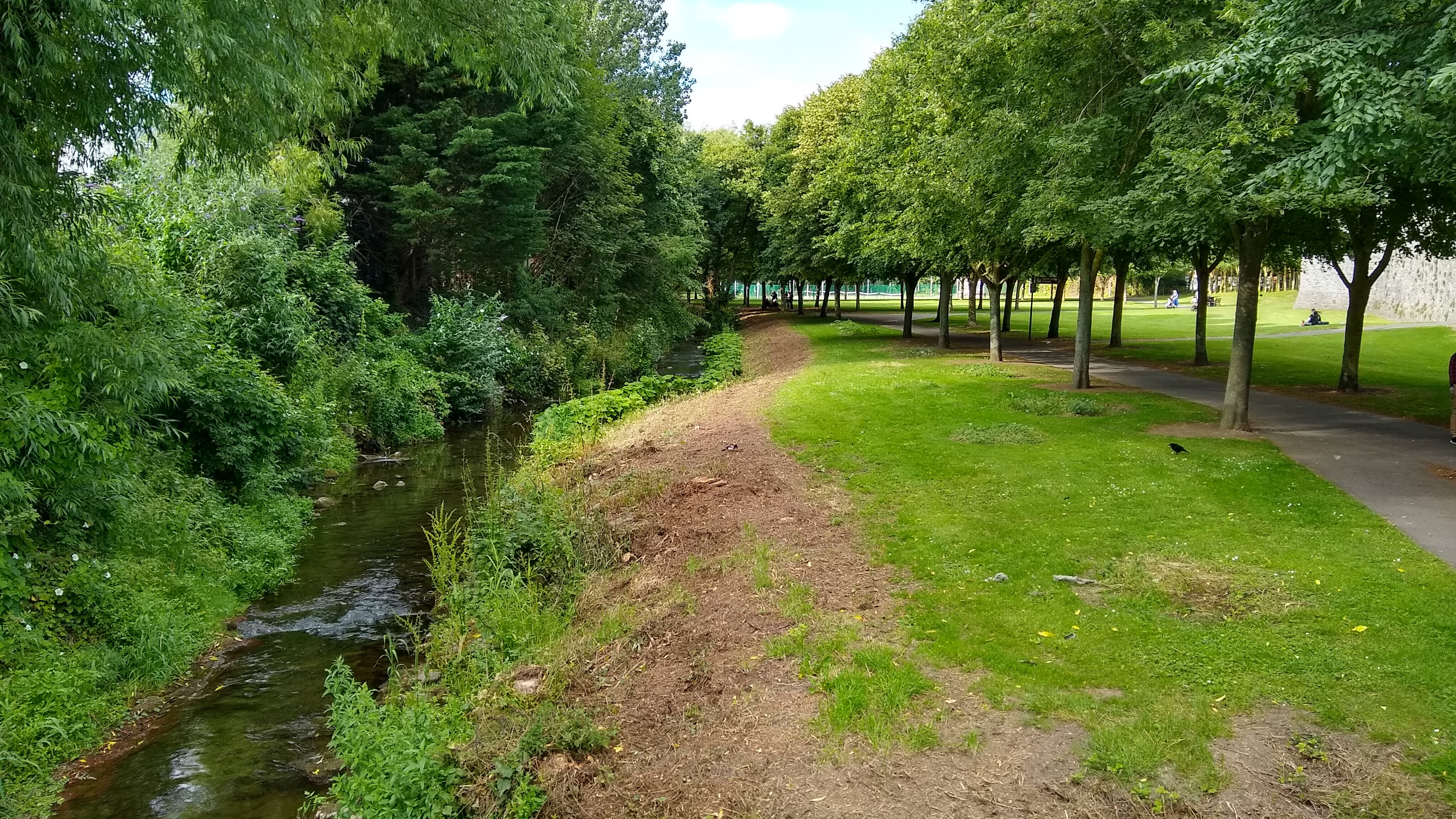 Looking north in, with the Ward River at left.